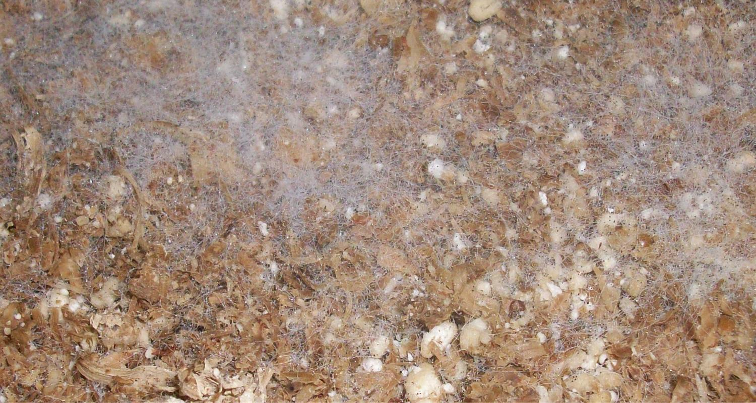 Pleurotus mycellium 9 years old. Substrate wood chips and perlite.